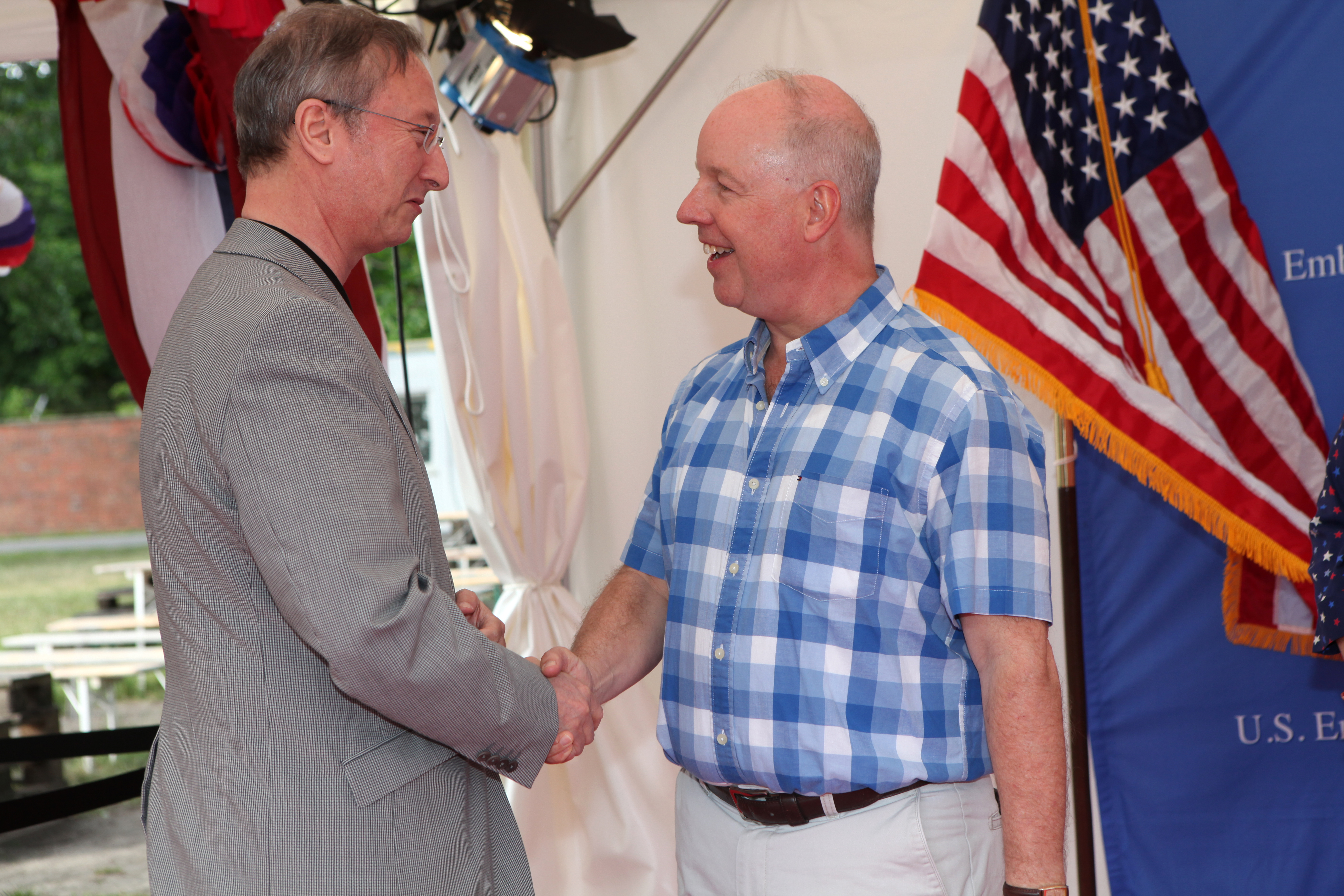 Nor Eddine Aouam with Kent Logsdon in Berlin, June 2017, 241 st Anniversary of the Independence of the United States of America